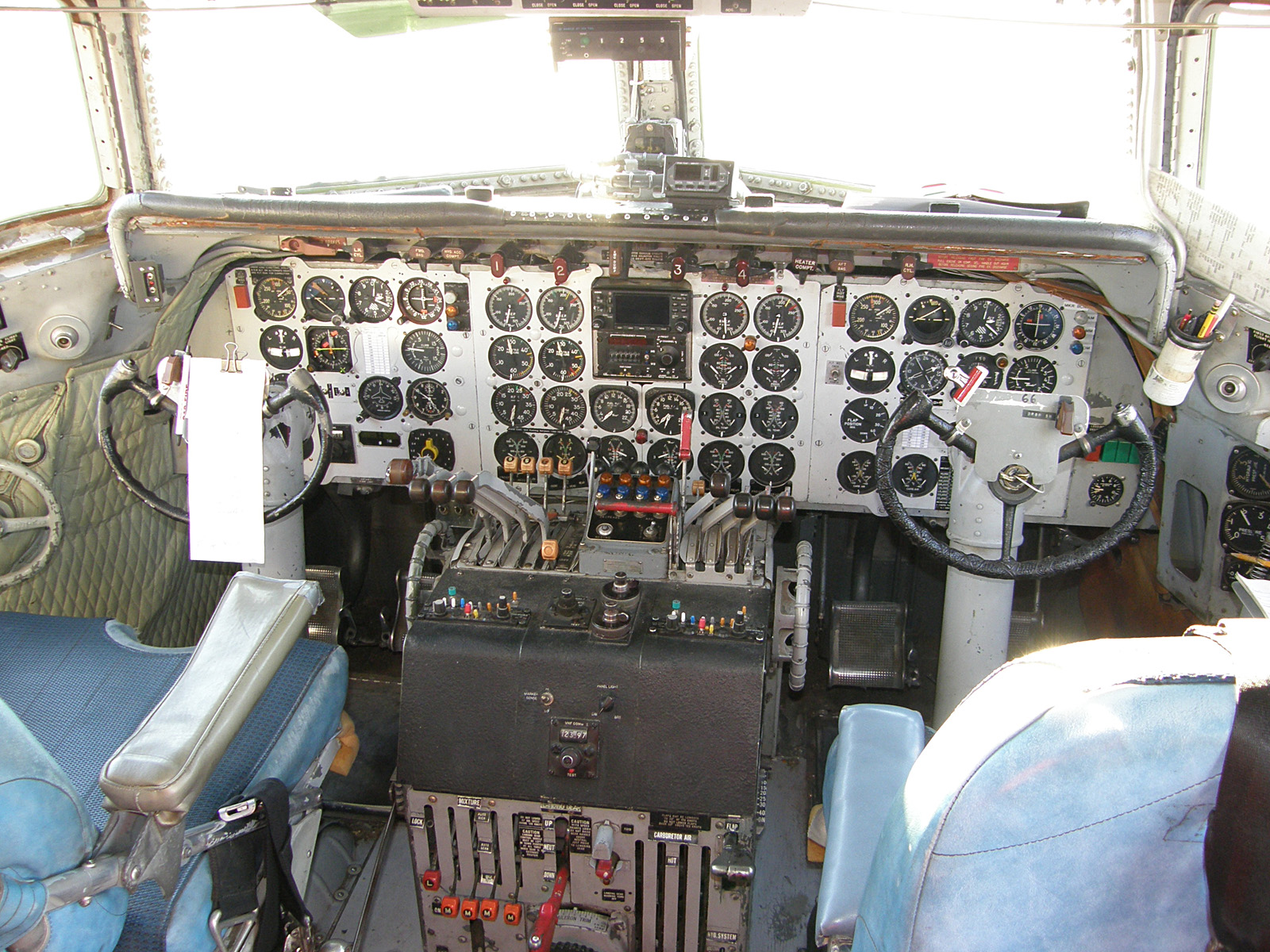 Douglas DC-7 cockpit. This aircraft is operated as an airtanker by Butler Aviation